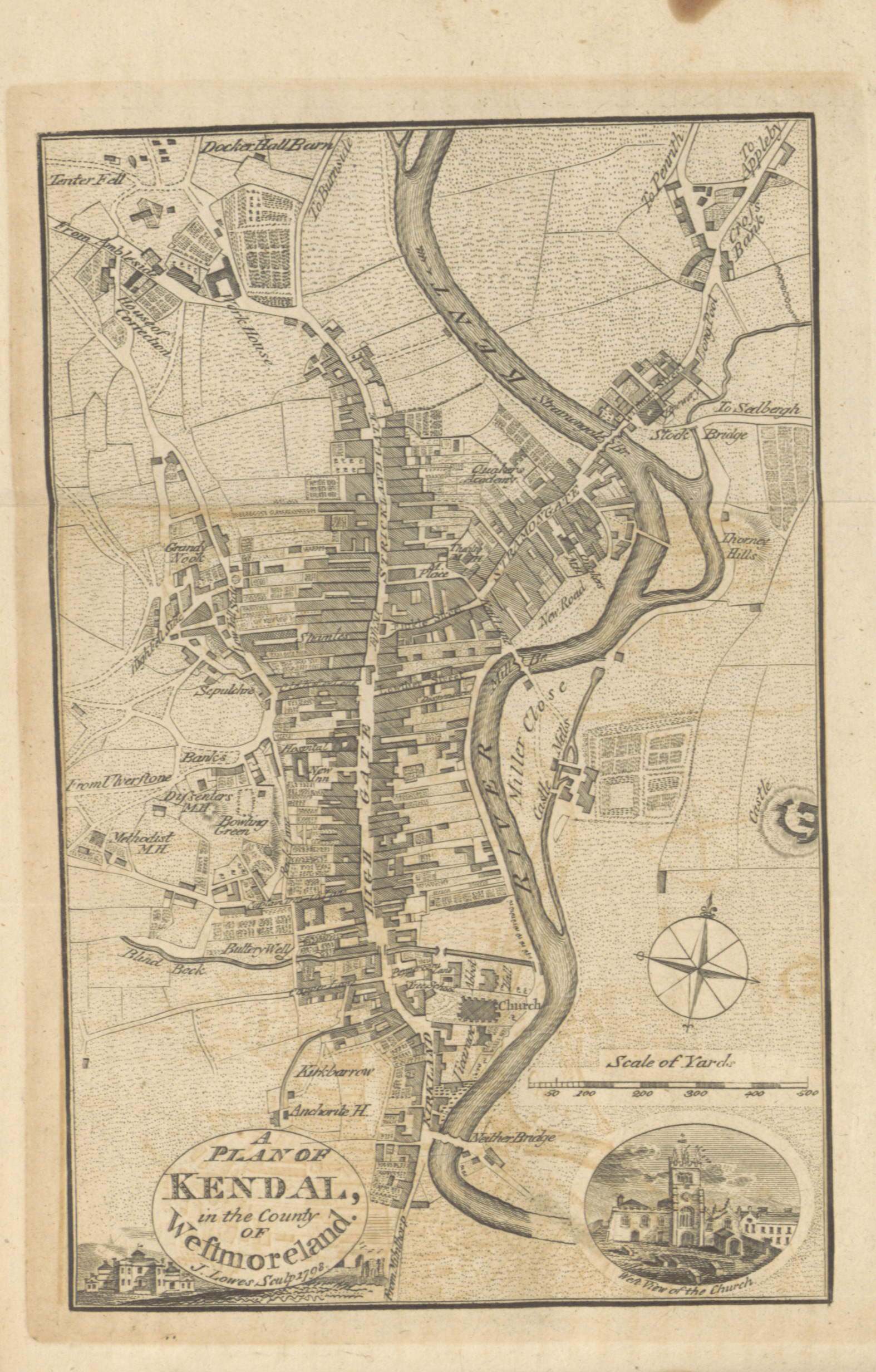 View this map on the BL Georeferencer service. Image taken from: Title: "[A Topographical Description of Cumberland, Westmoreland, Lancashire, and a Part of the West Riding of Yorkshire.]" Author: HOUSMAN, John. Shelfmark: "British Library HMNTS 10349.c.10.(2.)" Page: 75 Place of Publishing: Carlisle Date of Publishing: 1814 Edition: Sixth edition. Issuance: monographic Identifier: 001744056 Explore: Find this item in the British Library catalogue, 'Explore'. Download the PDF for this book (volume: 0) Image found on book scan 75 (NB not necessarily a page number) Download the OCR-derived text for this volume: (plain text) or (json) Click here to see all the illustrations in this book and click here to browse other illustrations published in books in the same year. Order a higher quality version from here.